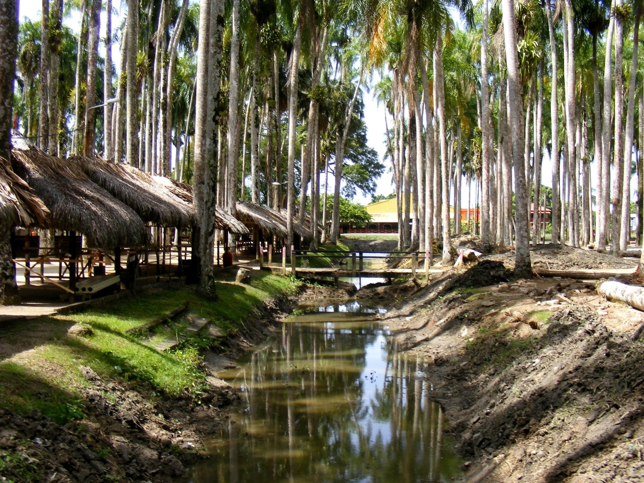 Paramaribo Palmentuin